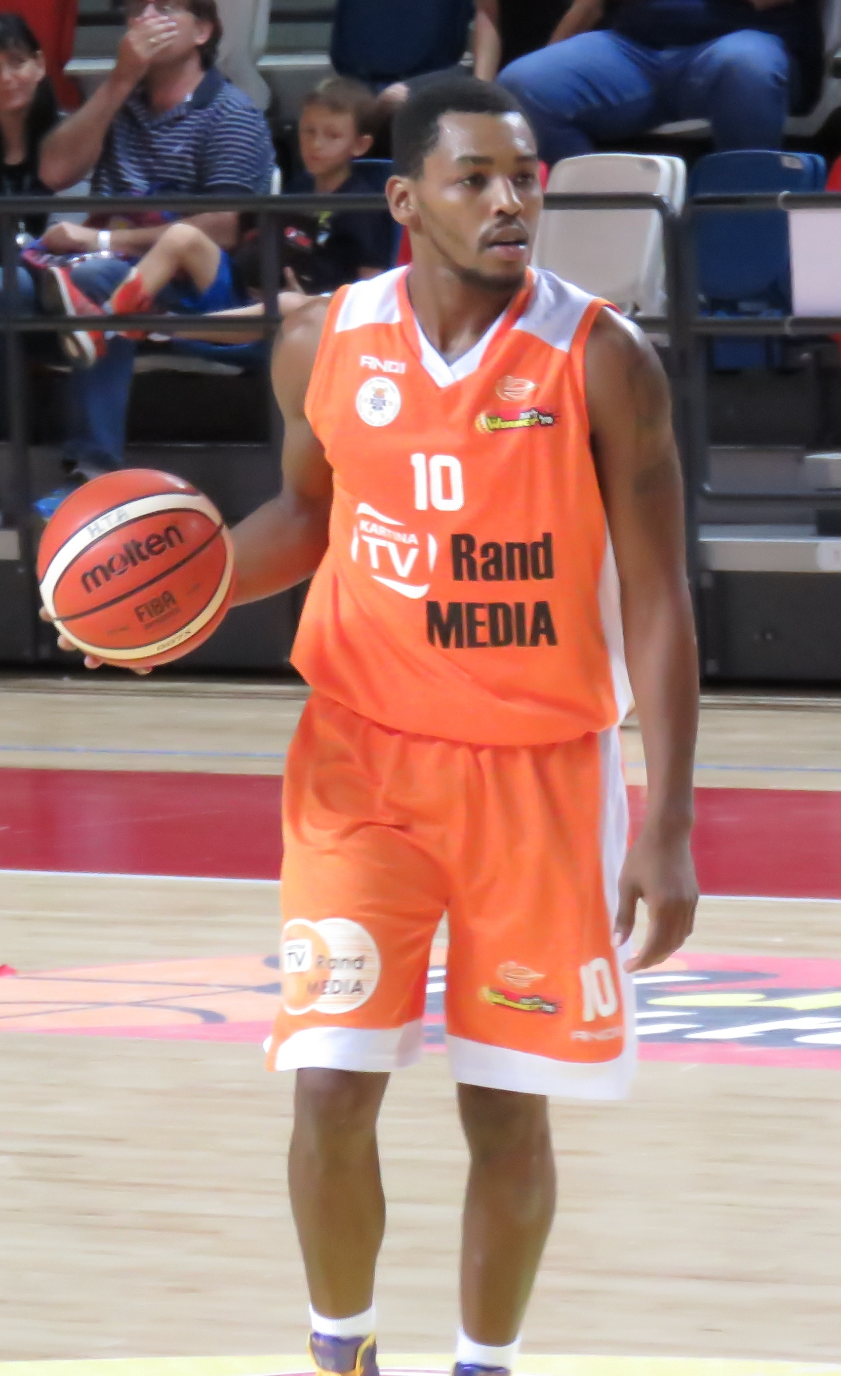 Maccabi Rishon LeZion vs. Maccabi Tel Aviv B.C., 26 September, 2015